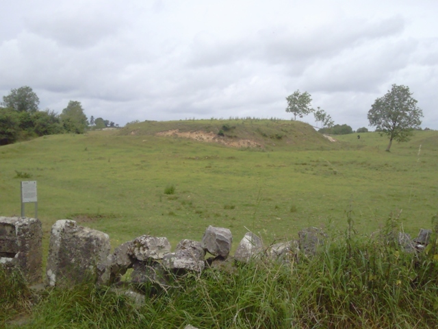 Magh Adhair, Toonagh, Co Clare This mound is steeped in history. It was the place of inauguration of Thomond Kings.